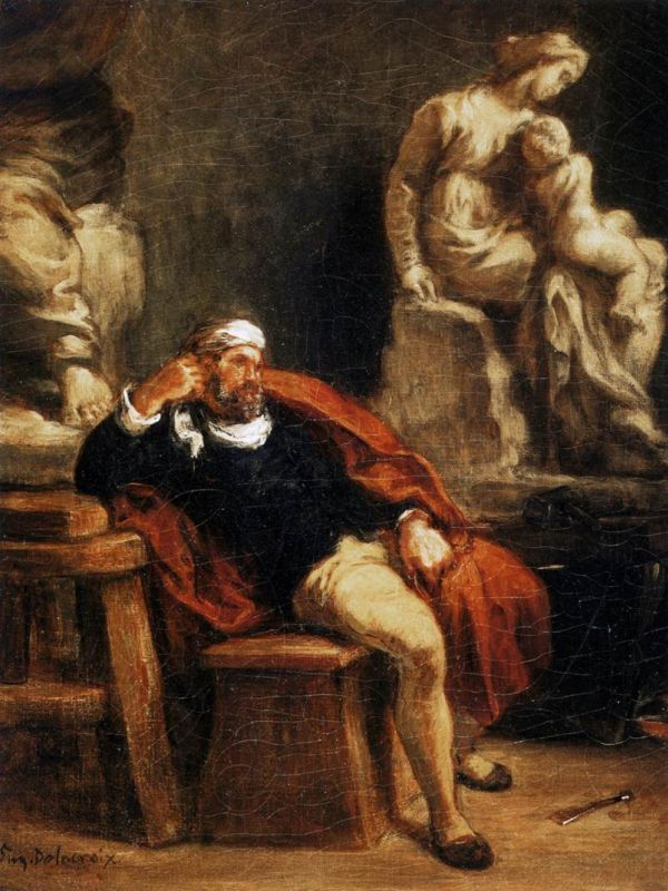 Микеланджело в своей студии